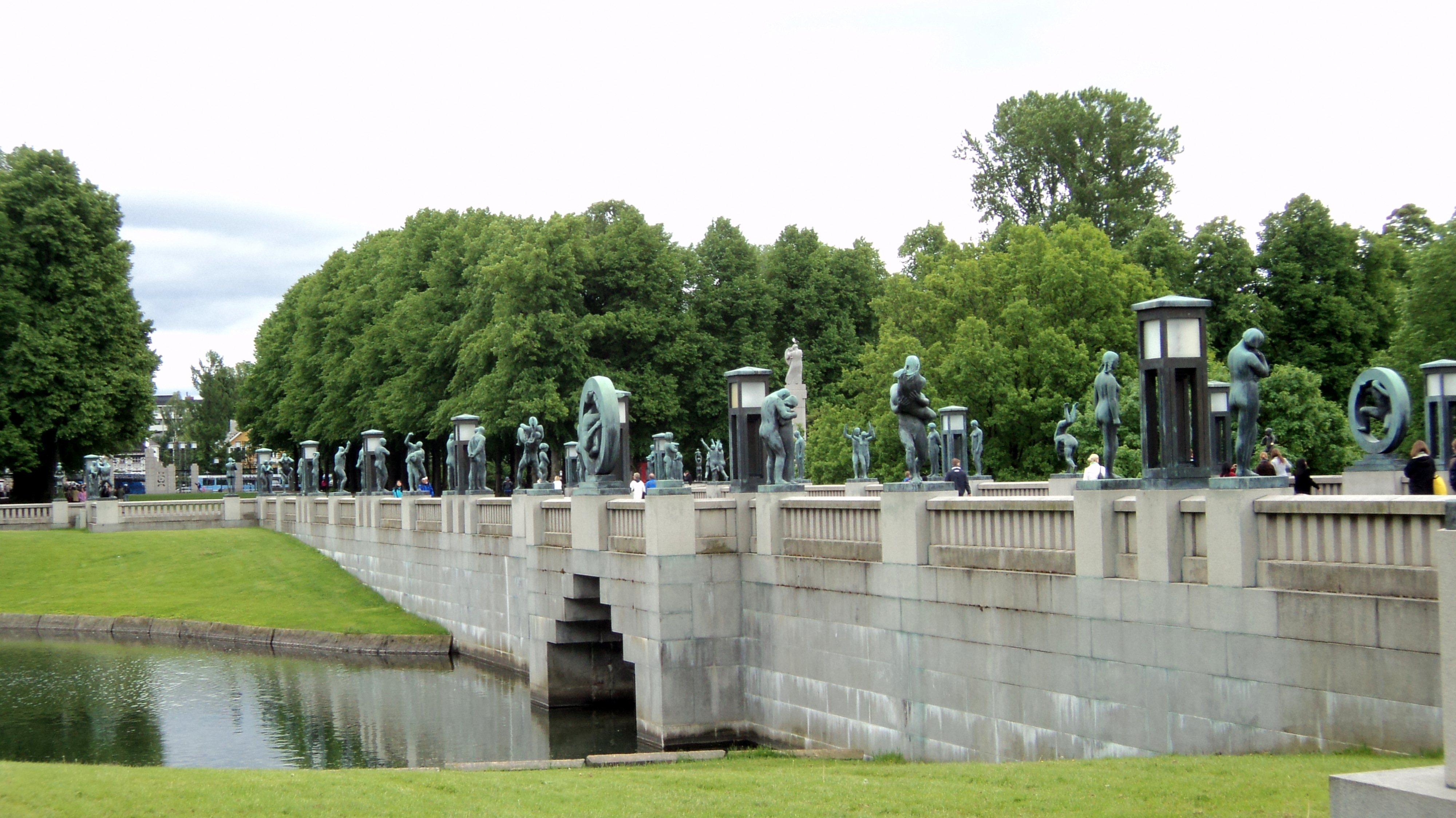 The bridge in Vigeland Park